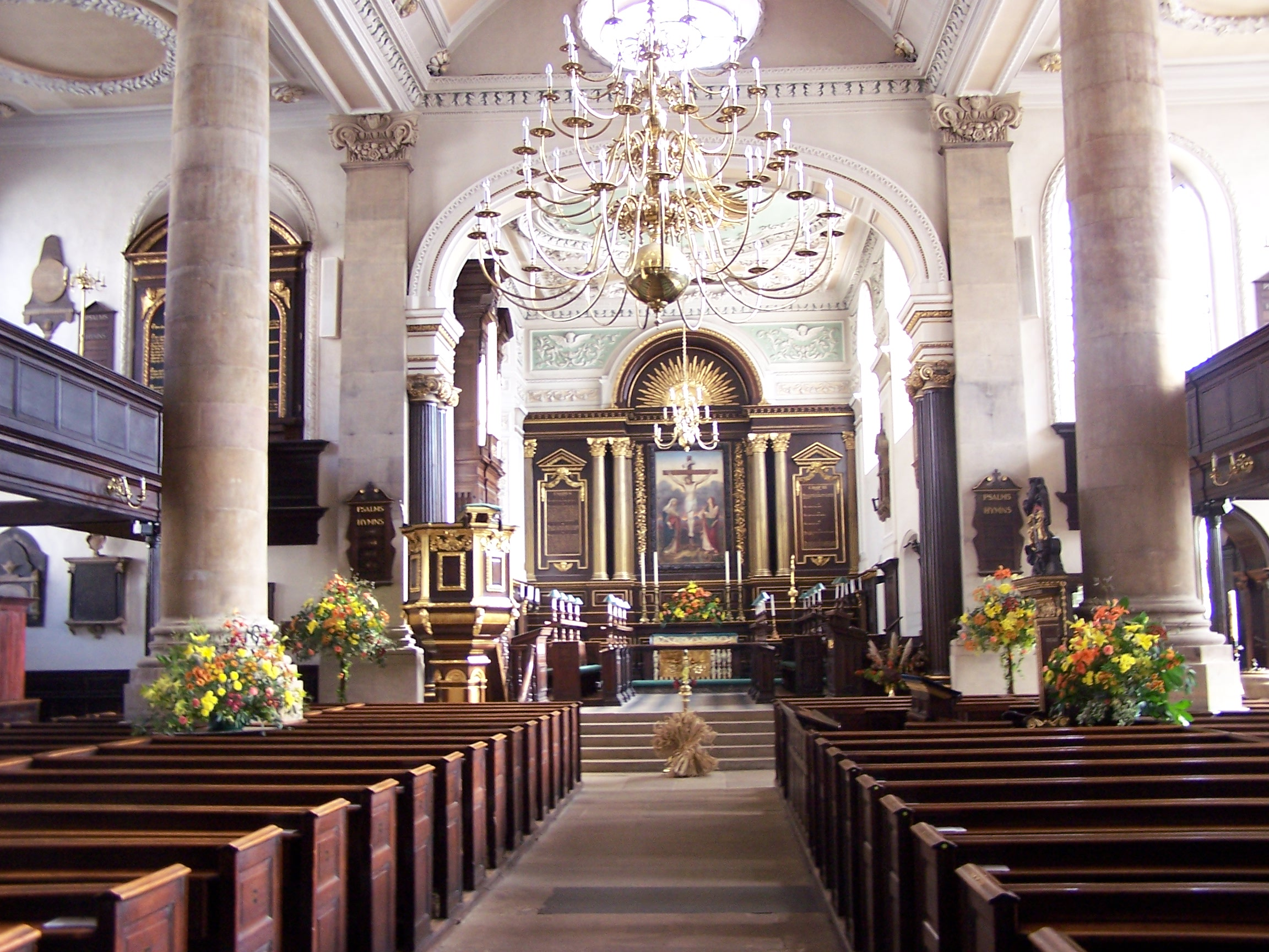 All Saints Church in Northampton